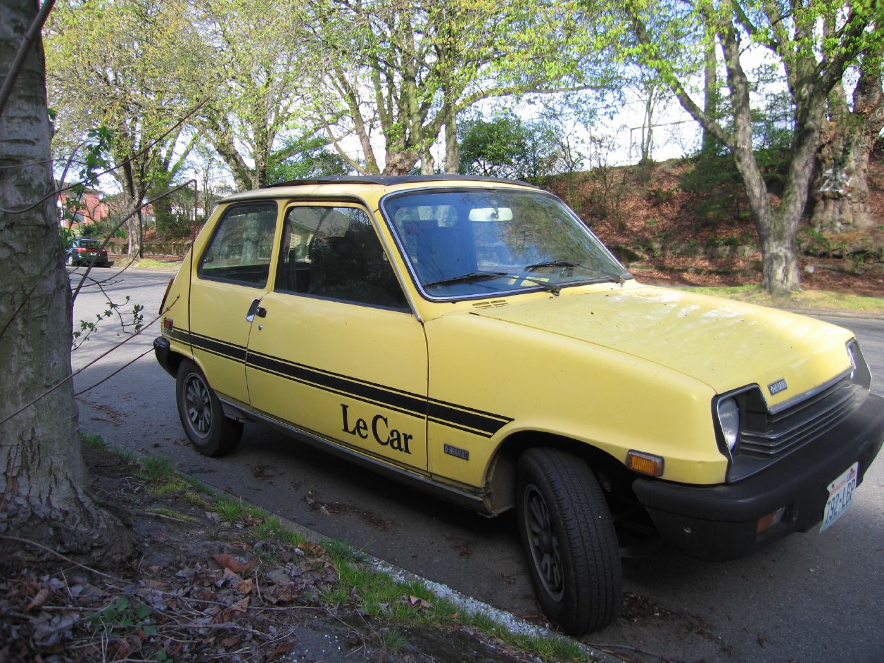 We stopped in France for a quick bite and some of the local scenery.